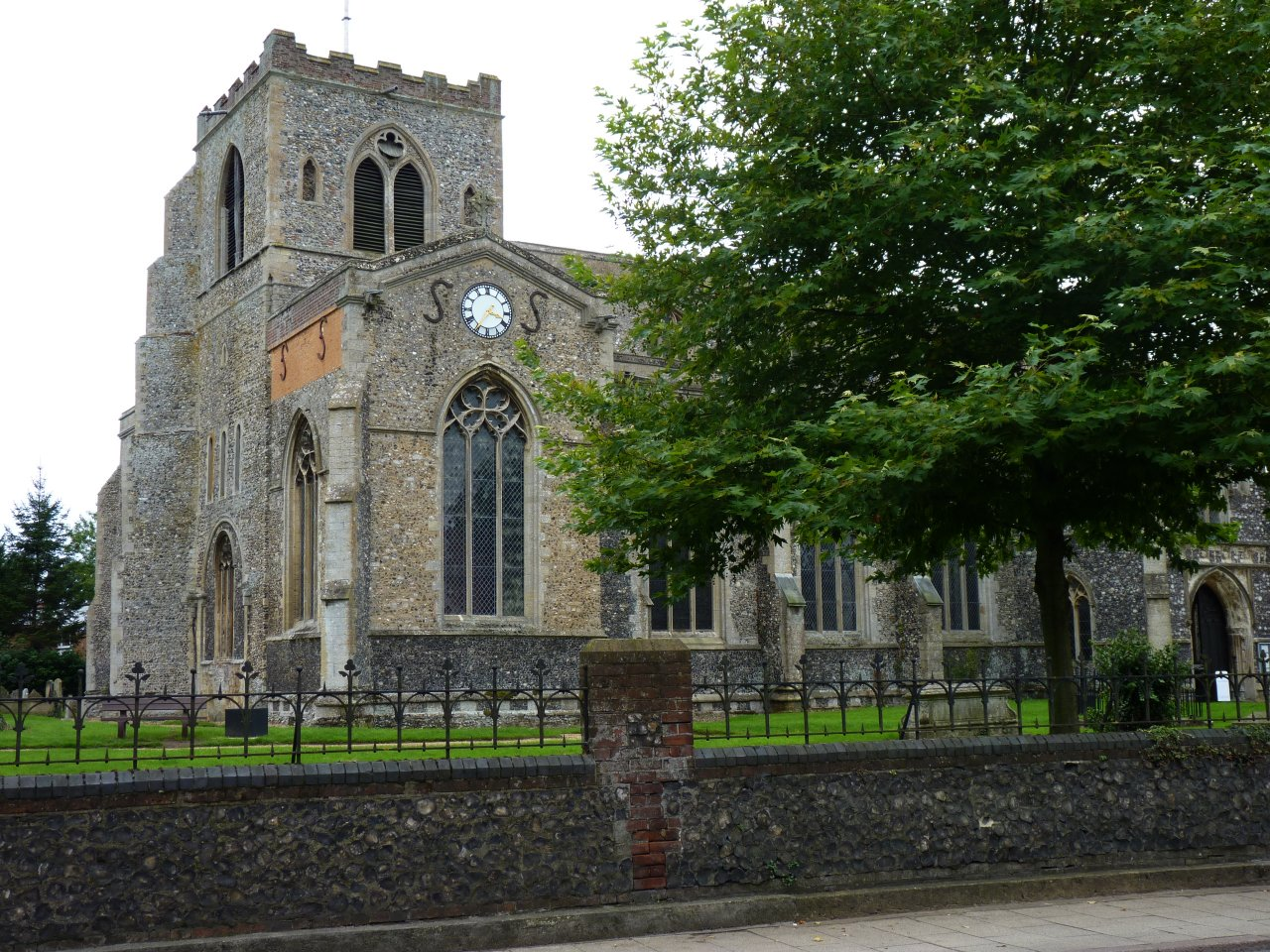 Attleborough church, near to Attleborough, Norfolk, Great Britain. The Church of the Assumption of the Blessed Virgin Mary dates from the 9th century.